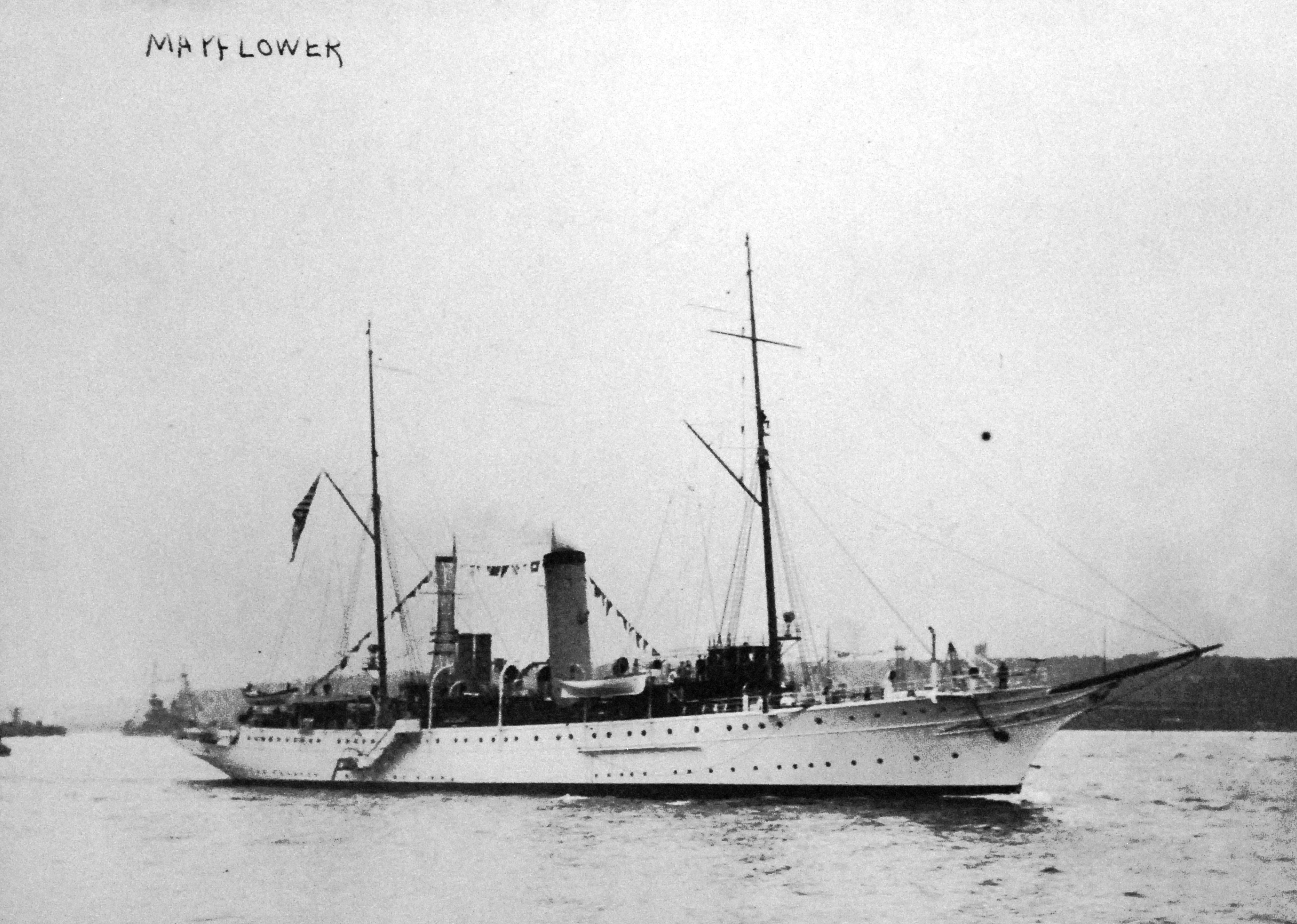 Lot-11276-6: President yacht, USS Mayflower, 1912. Collection of George Bain. (7/31/2015).